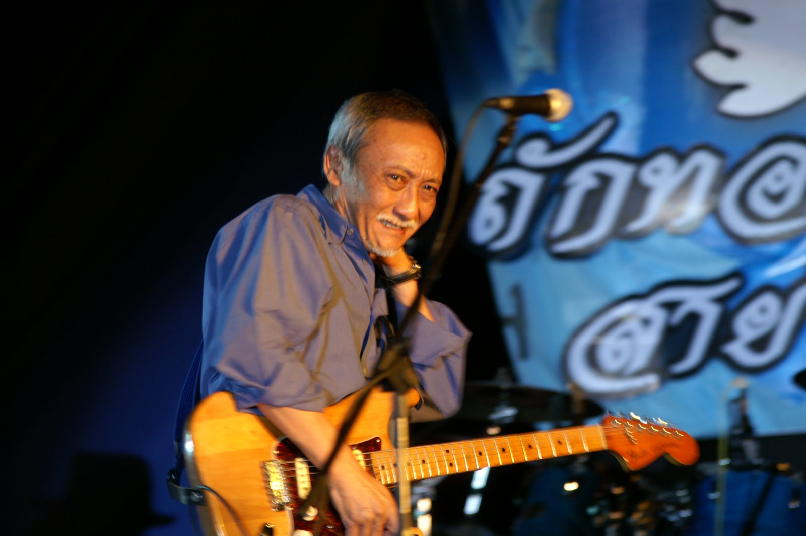 Former senator Kraisak Chonhavan at Thai Myanmar Concert. Yes, that is a guitar and he is on stage in a concert.